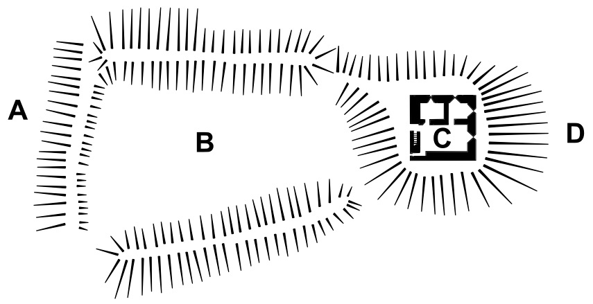 Plan of Lydford Castle; after Andrew Saunders (1980)